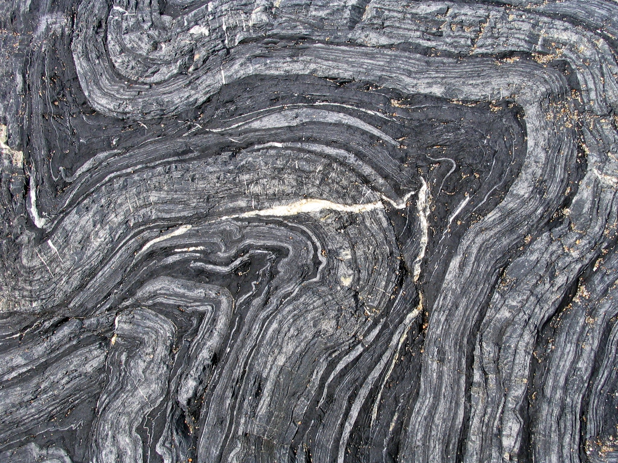 Folded schist near Kerguillé (Porzh Koubou) in the Crozon peninsula in Brittany, France. The view is about 10 centimetres across.